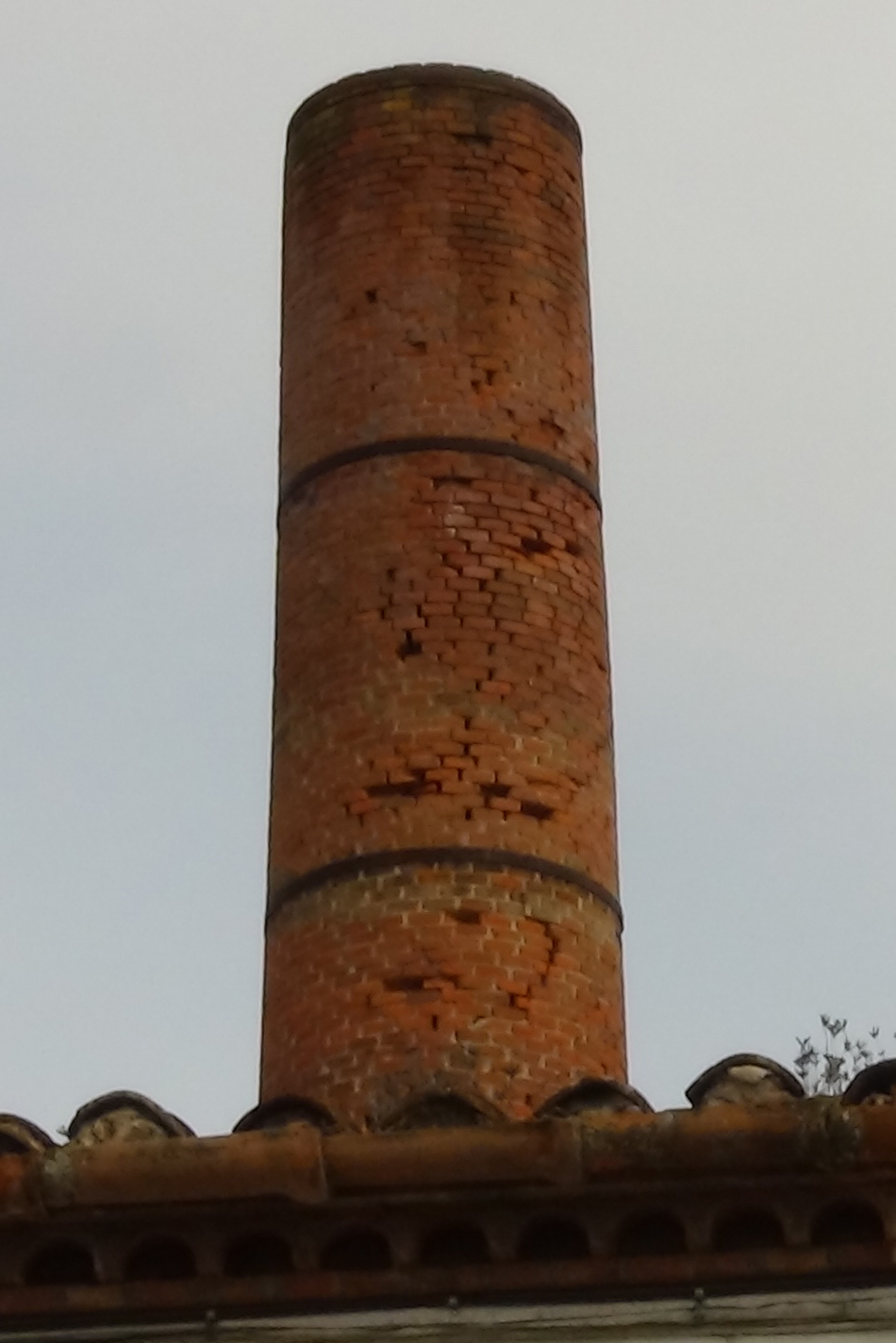 Pathologies of industrial chimneys